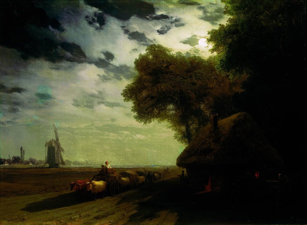 Ukrainian landscape with chumaks in the moonlight